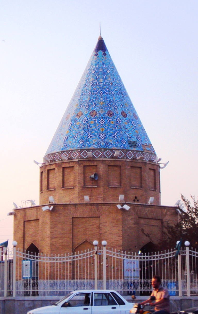 امام‌زاده خاک‌فرج قم